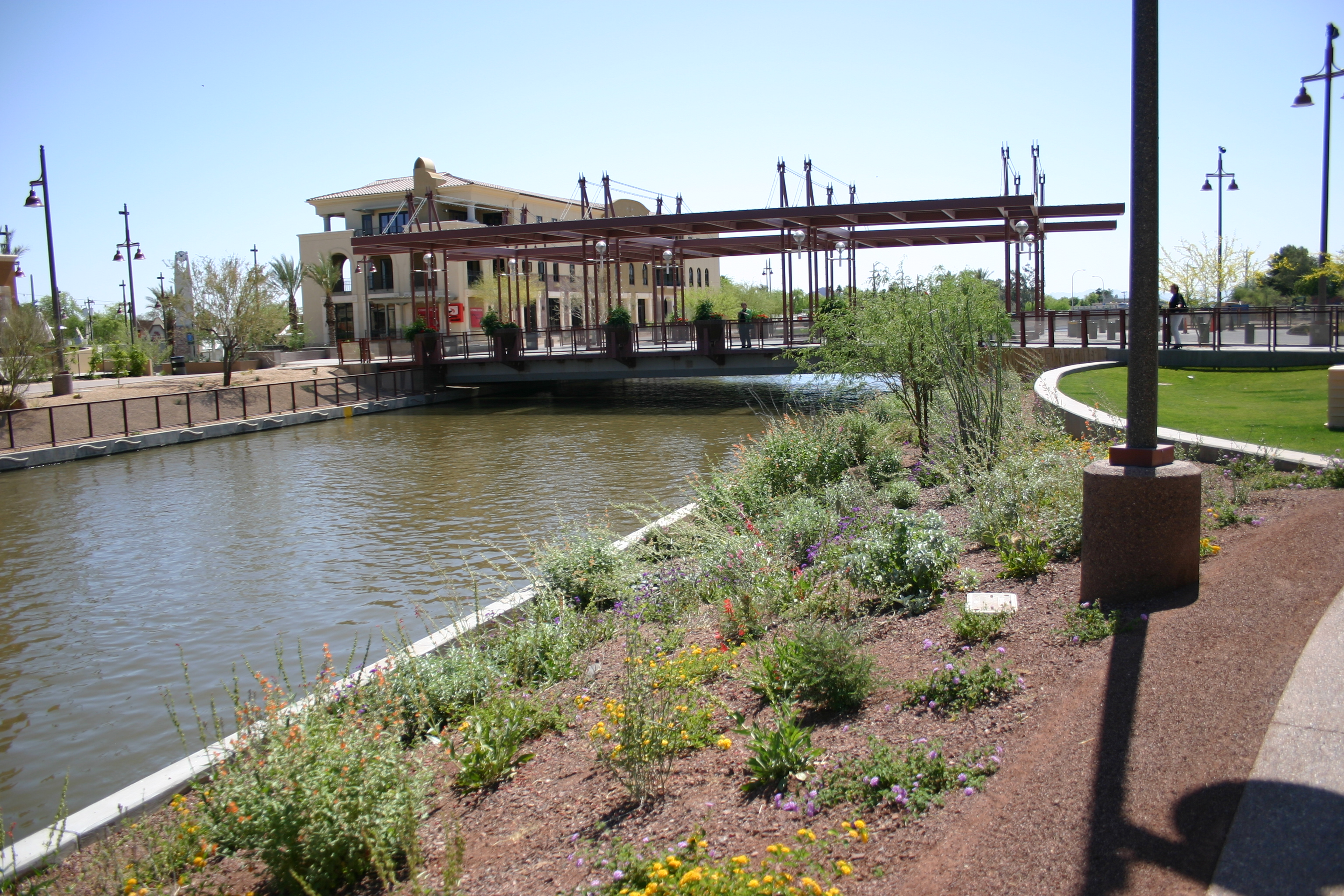 Photo of the Marshall Way bridge over the Arizona Canal in Scottsdale, Arizona designed by architect Paolo Soleri.